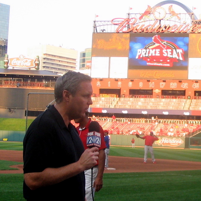 Martin Kilcoyne broadcasting live at Busch Stadium before a St. Louis Cardinals game.